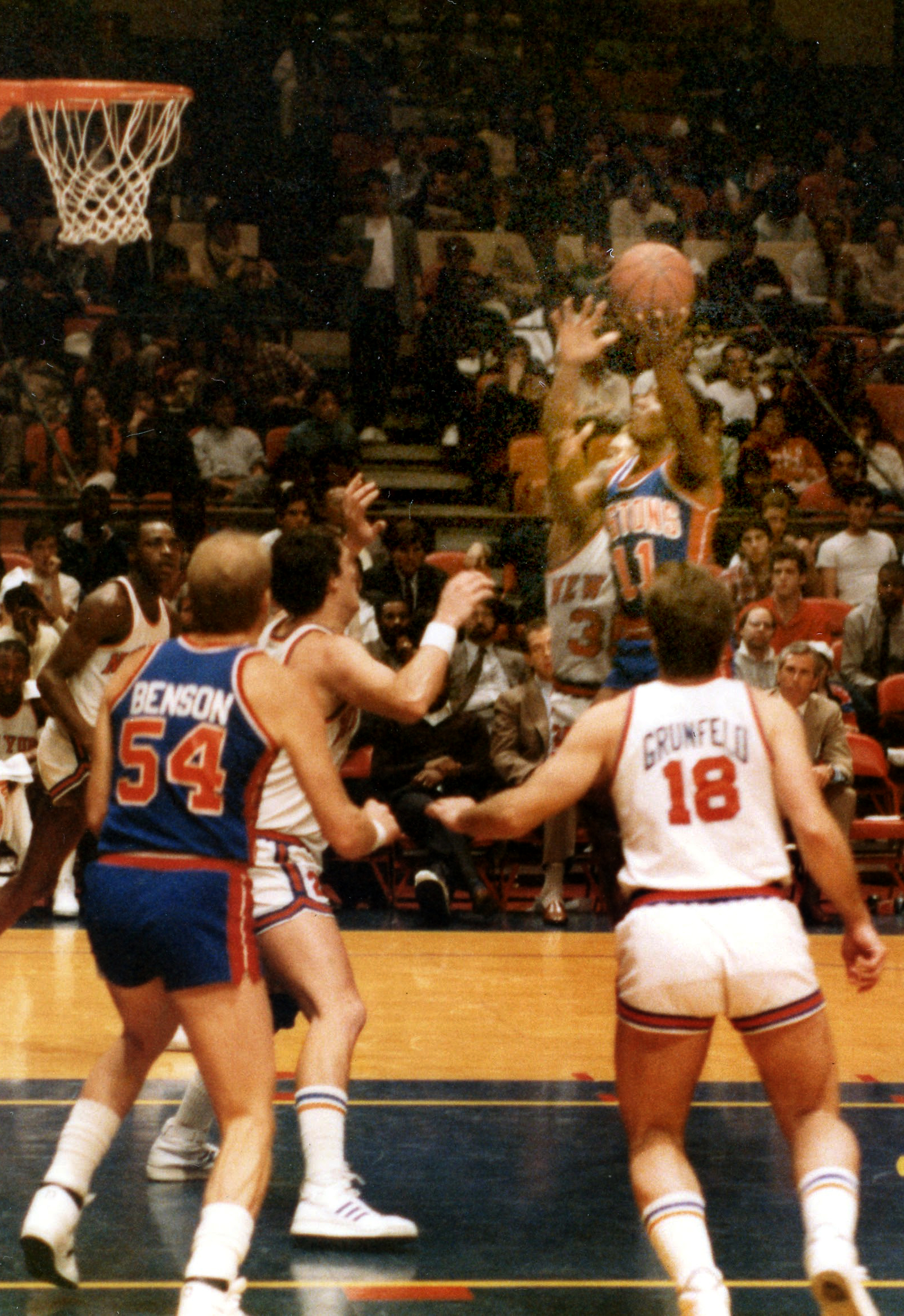 Isiah Thomas competing for the Detroit Pistons against the New York Knicks at Madison Square Garden in New York on January 19, 1985